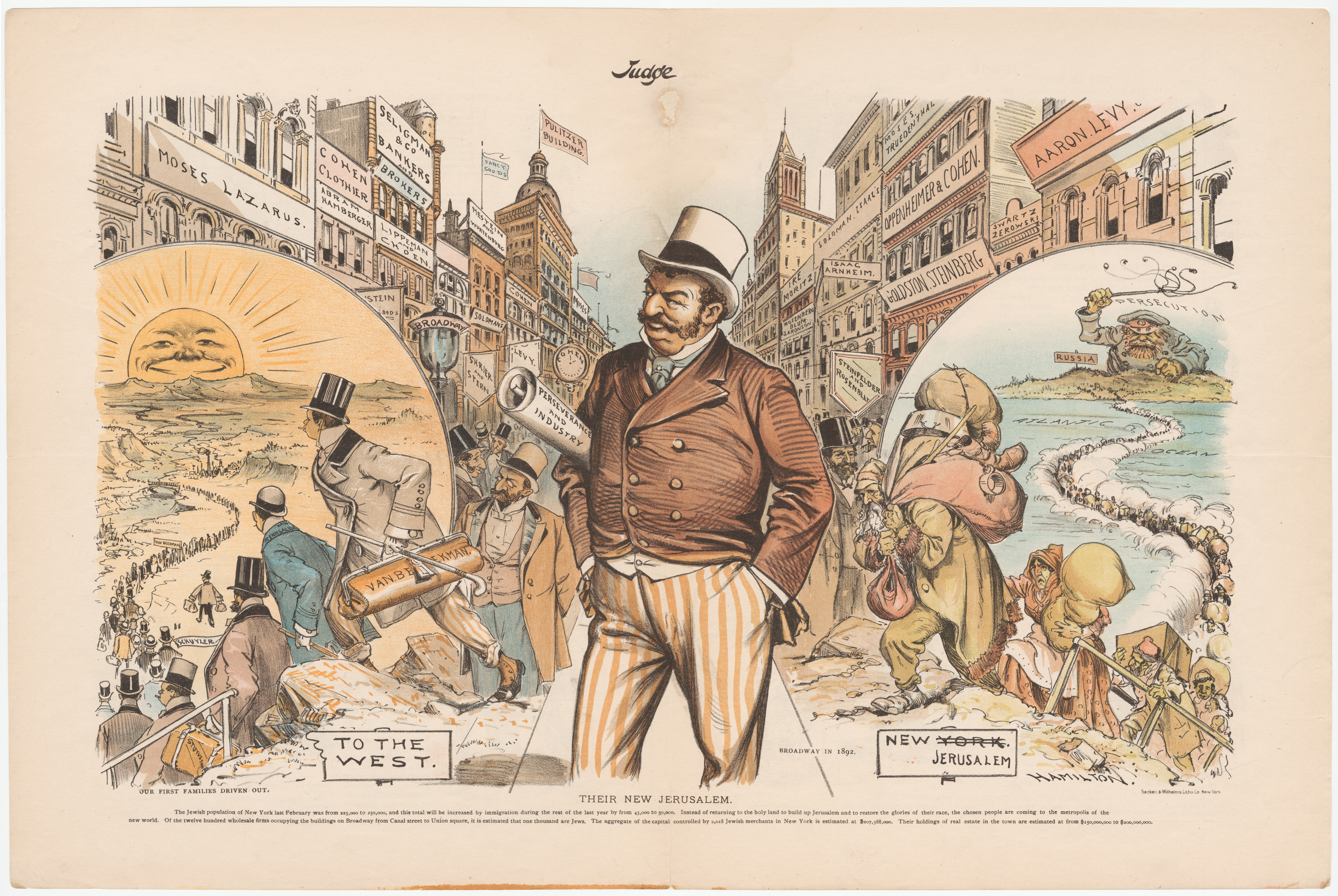 An anti-semitic cartoon from Judge magazine